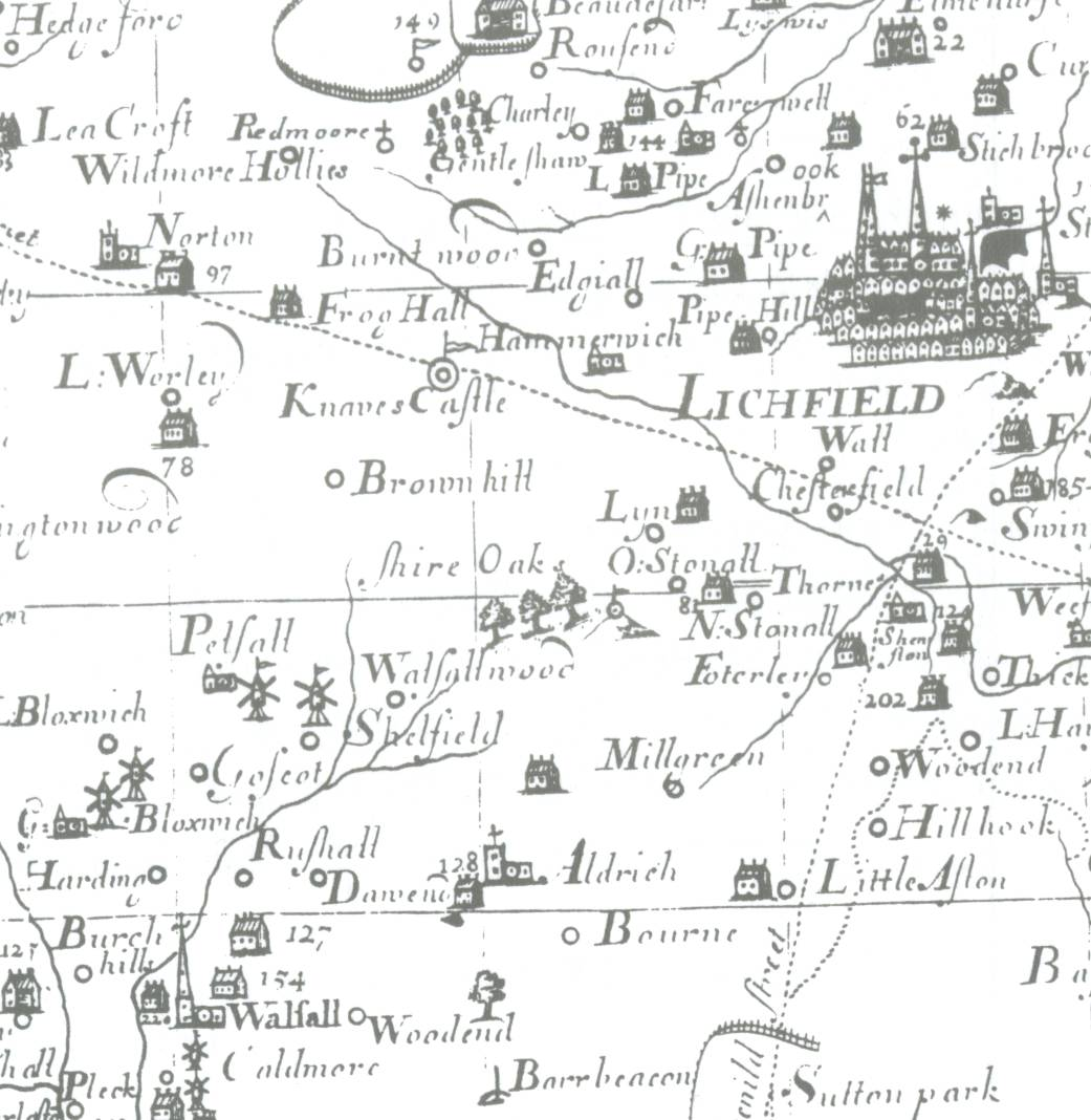 Extract from Robert Plot's 1680 map of Staffordshire